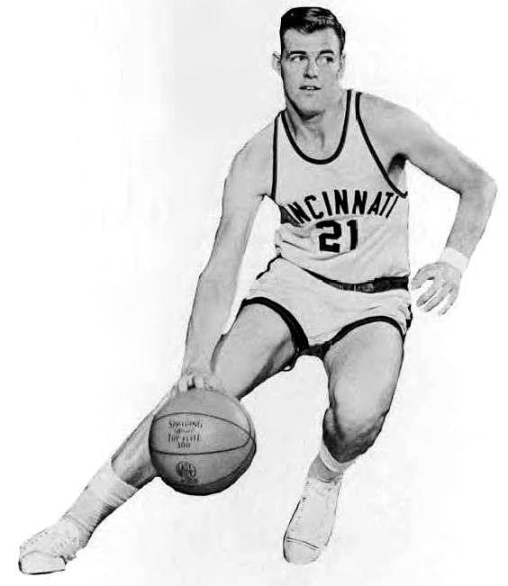 A page from the 1963 NCAA Annual National Collegiate Basketball Championship program